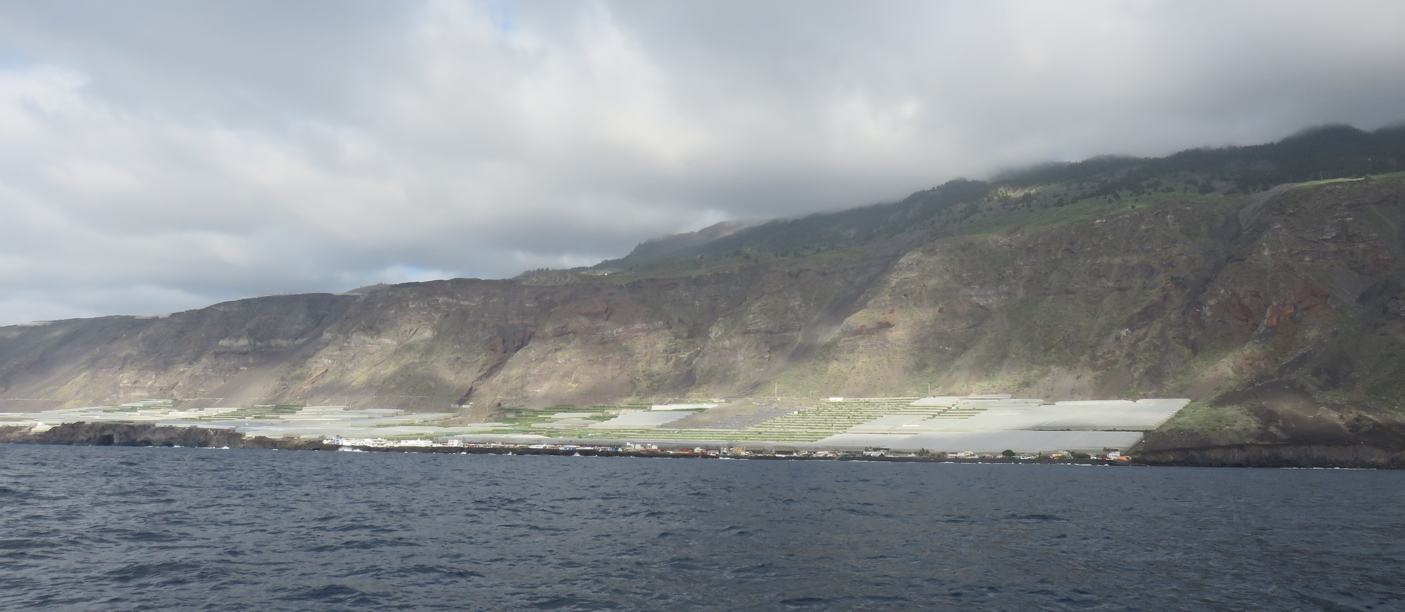 El Remo, Puerto Naos, La Palma